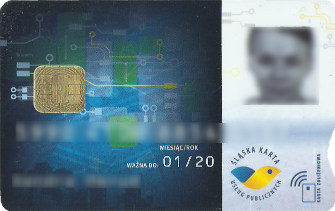 Front of ŚKUP card